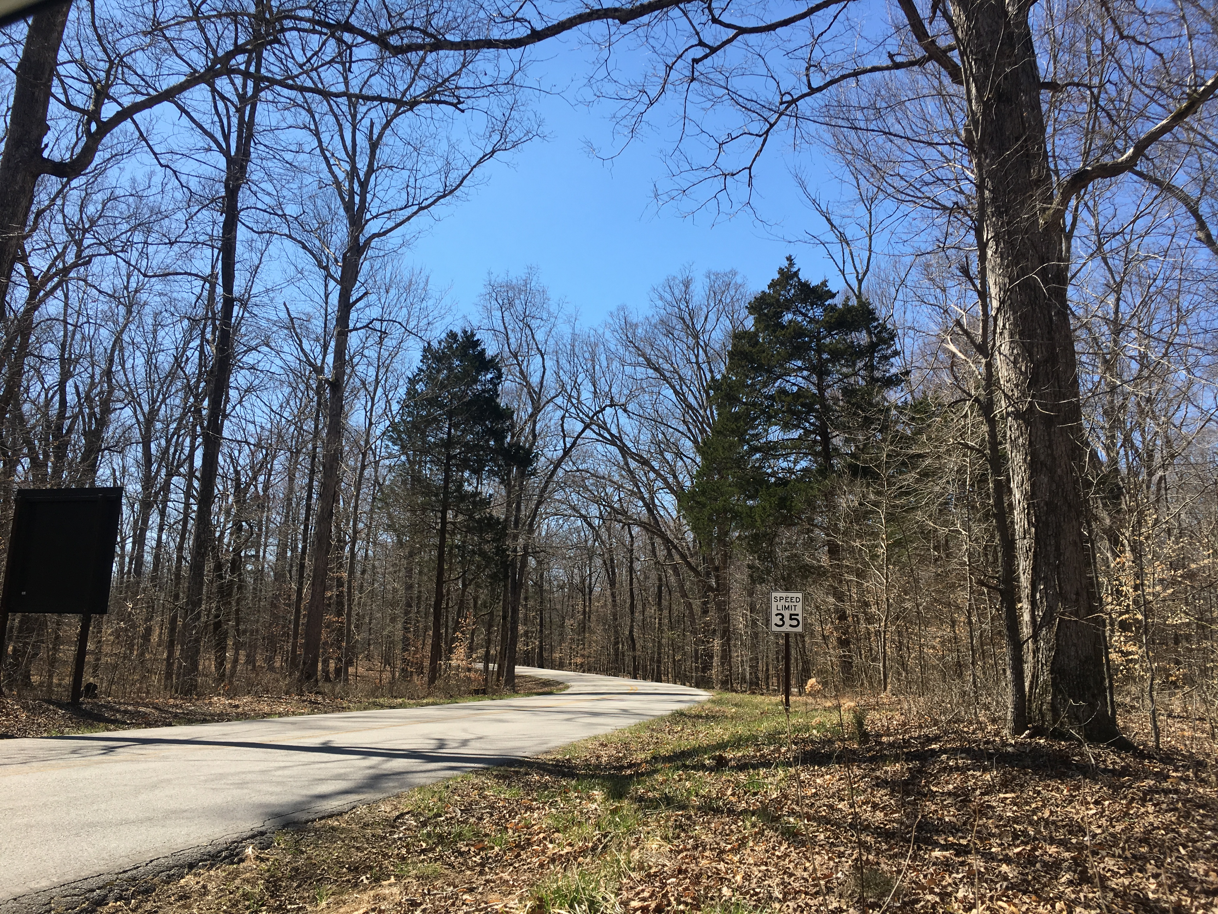 Green River Ferry Road